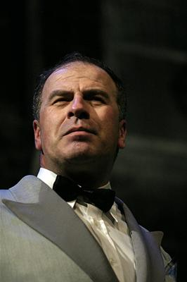 Greek actor Kostas Triantafyllopoulos playing Joe Keller in Arthur Miller's All My Sons. (National Theatre of Northern Greece, 2006)